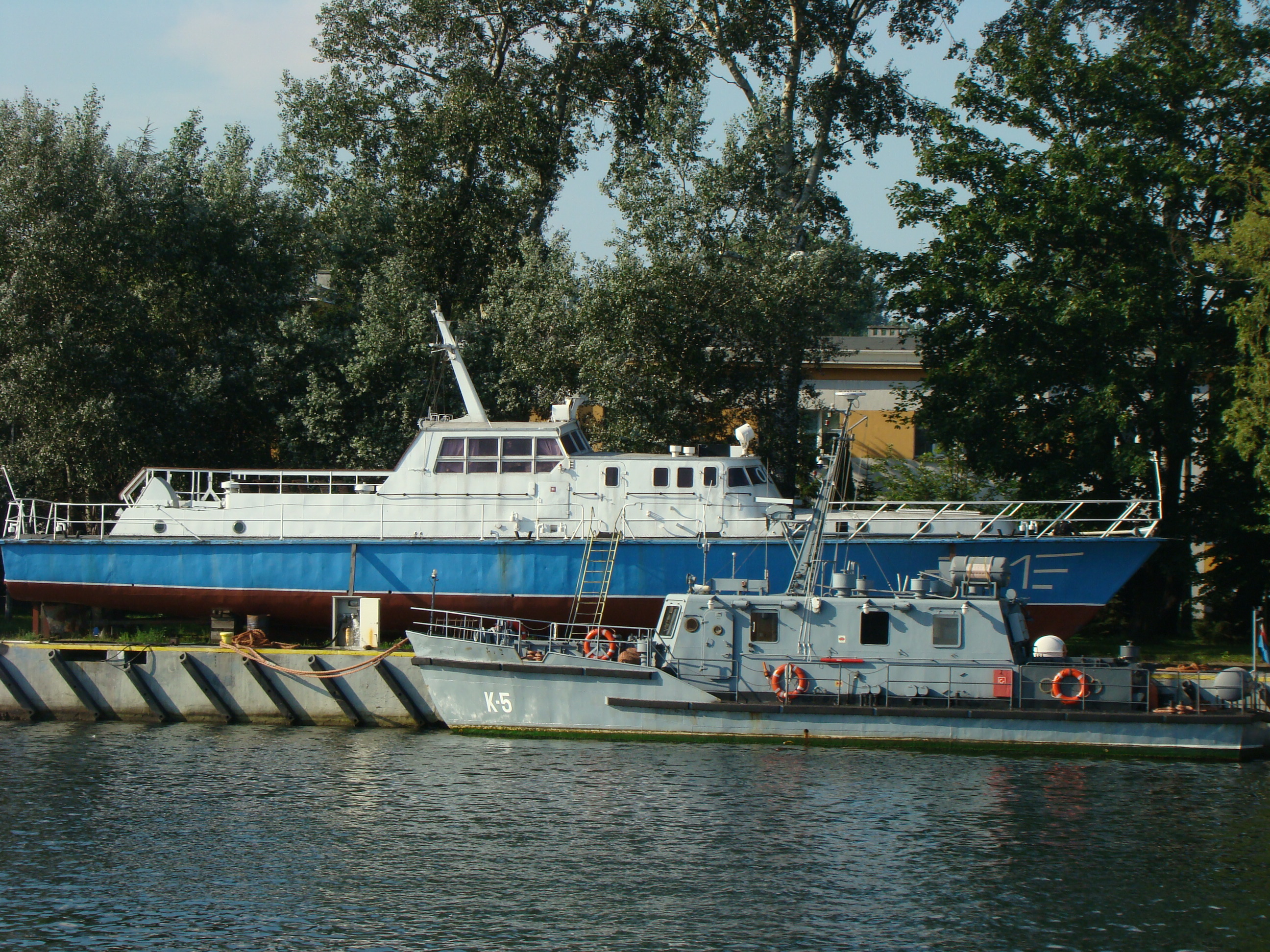 Polish Navy commander's boat M-1 and transport boat K-5.